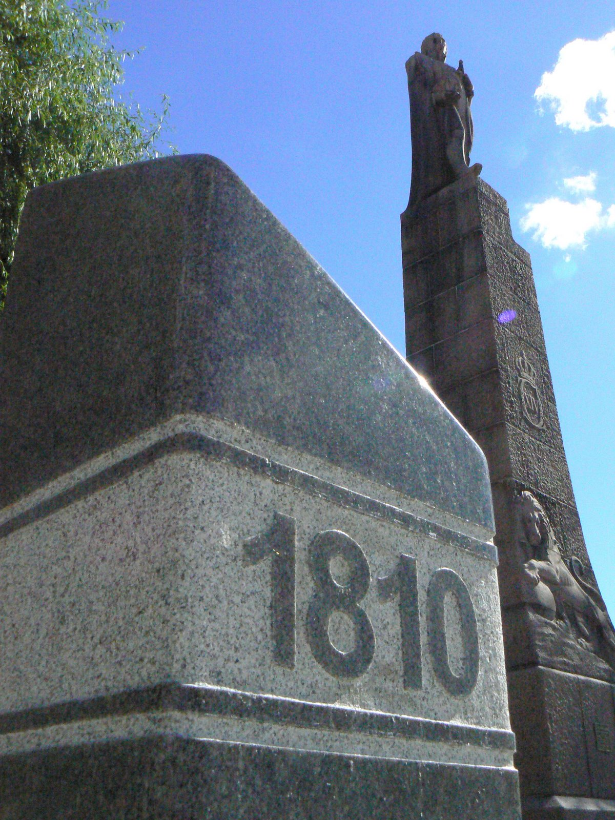 The 1810 pillar at the bronze timeline "Fifteen meters of History" with background statue of Karl XIV Johan